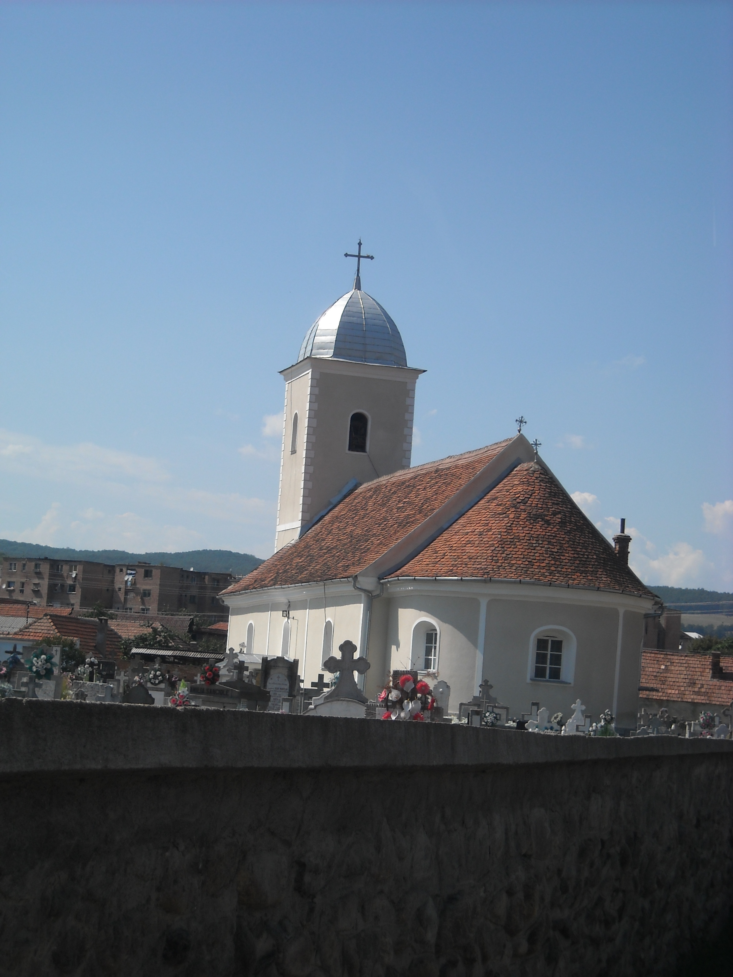 The old Orthodox (formerly Greek Catholic) church in Cugir, Romania.